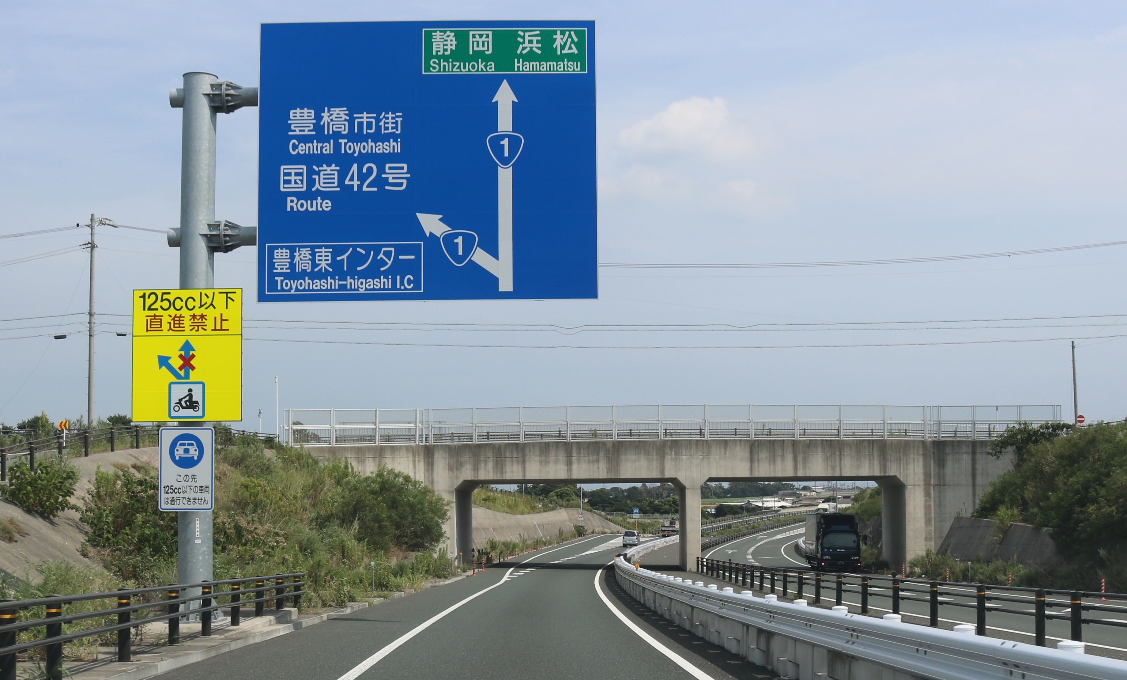 Toyohashi-higashi Interchange of Meiho Road (Route 1) in Higashihosoyacho, Toyohashi, Aichi prefecture, Japan.